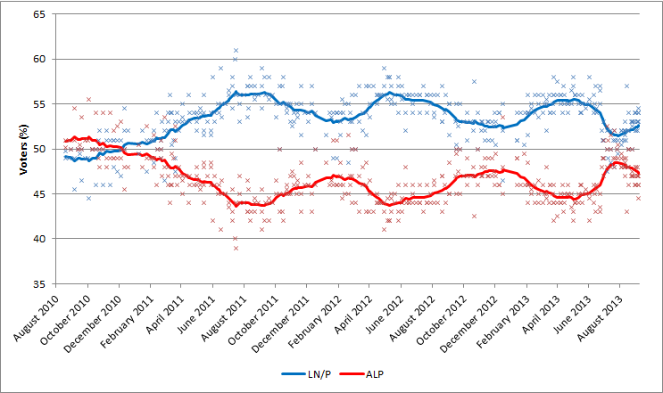 TPP polling for the Australian federal election, 2013